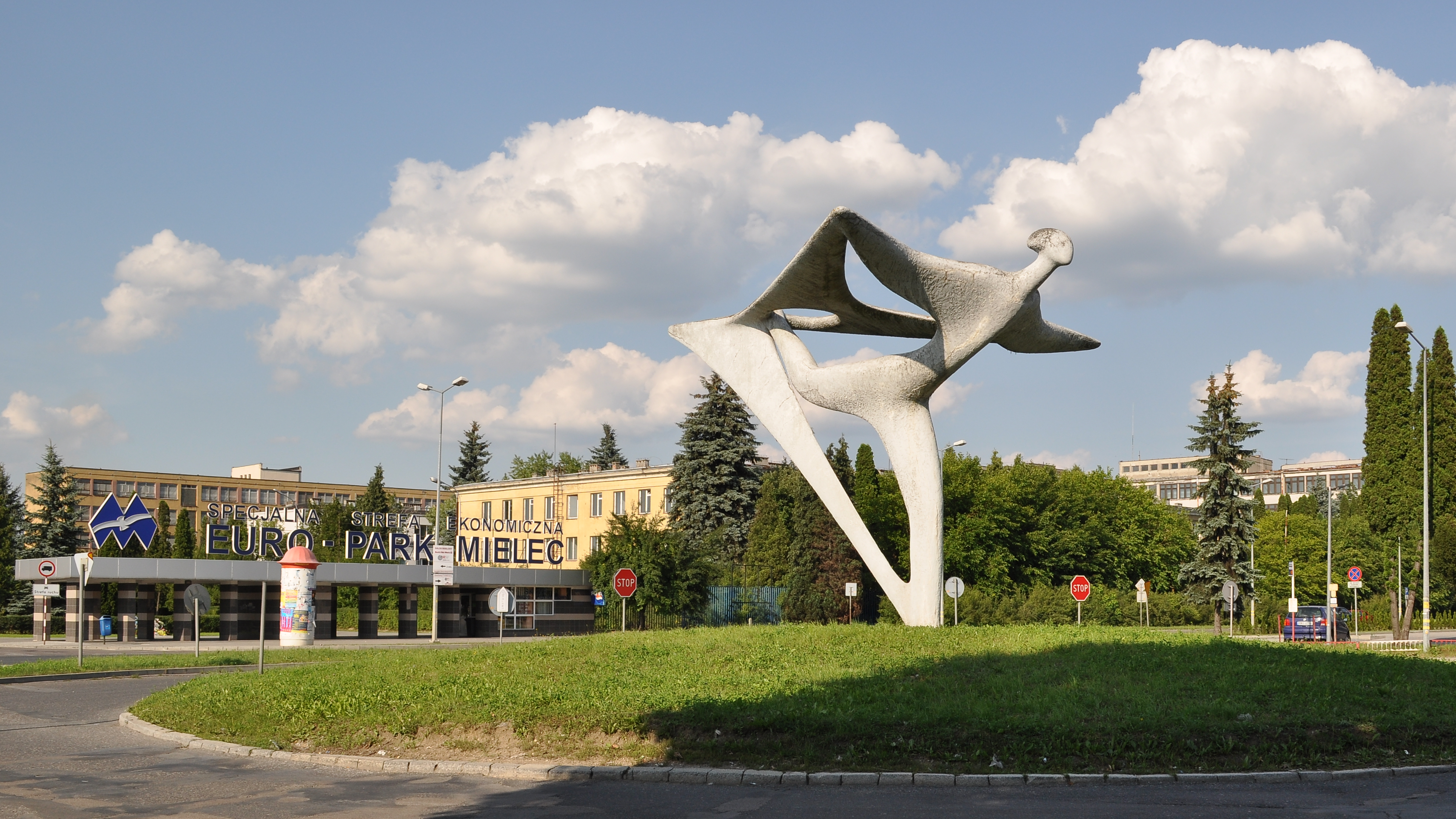 "Lot" sculpture, statue-maker: Henryk Burzec